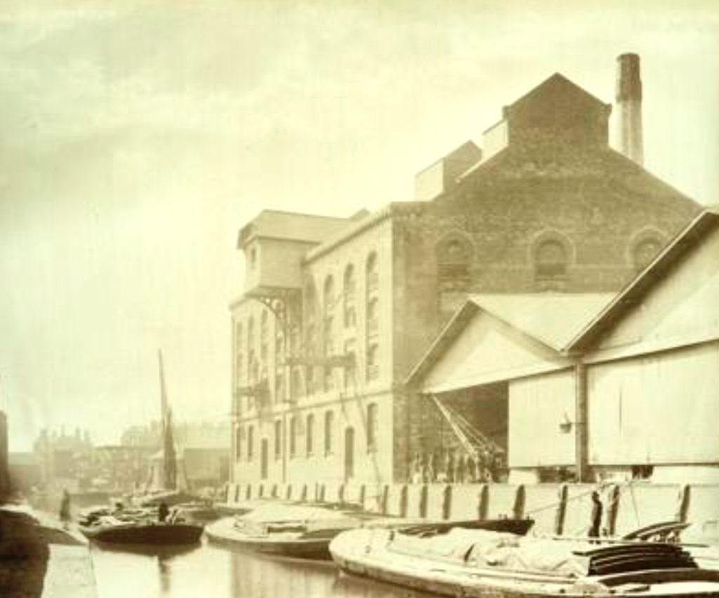 The Limehouse Cut, London (photographic albumen print, 30 April 1886). The scene is a few yards west of the Burdett Road bridge, near present-day Copenhagen Place In the centre is the Copenhagen Oil Mills, owned by Oscar and Adolph Hirsch, seed crushers. Dumb barges are moored in the foreground. In the right foreground is the Victoria Lead Works. In the left background is Copenhagen Wharf, where domestic coal ash was recycled and sent by barge to Kent to make bricks.